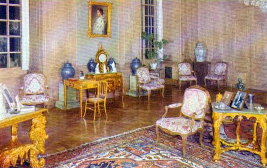 Postcard: Queen Victoria's story - Salon